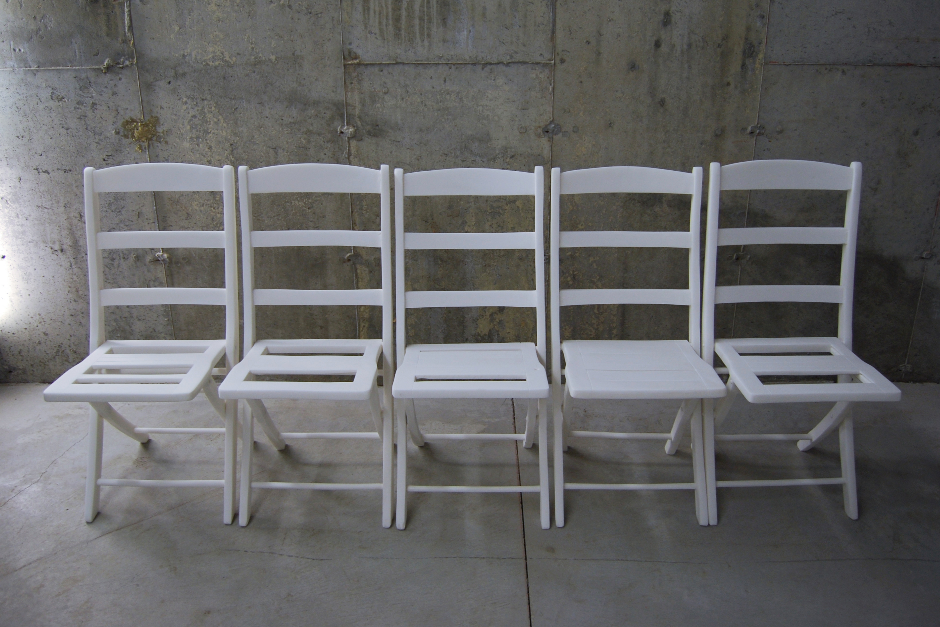 Helmut Lang, Front Row (2009). urethane resin, pigment, and filler, 79.75"x19"x34".